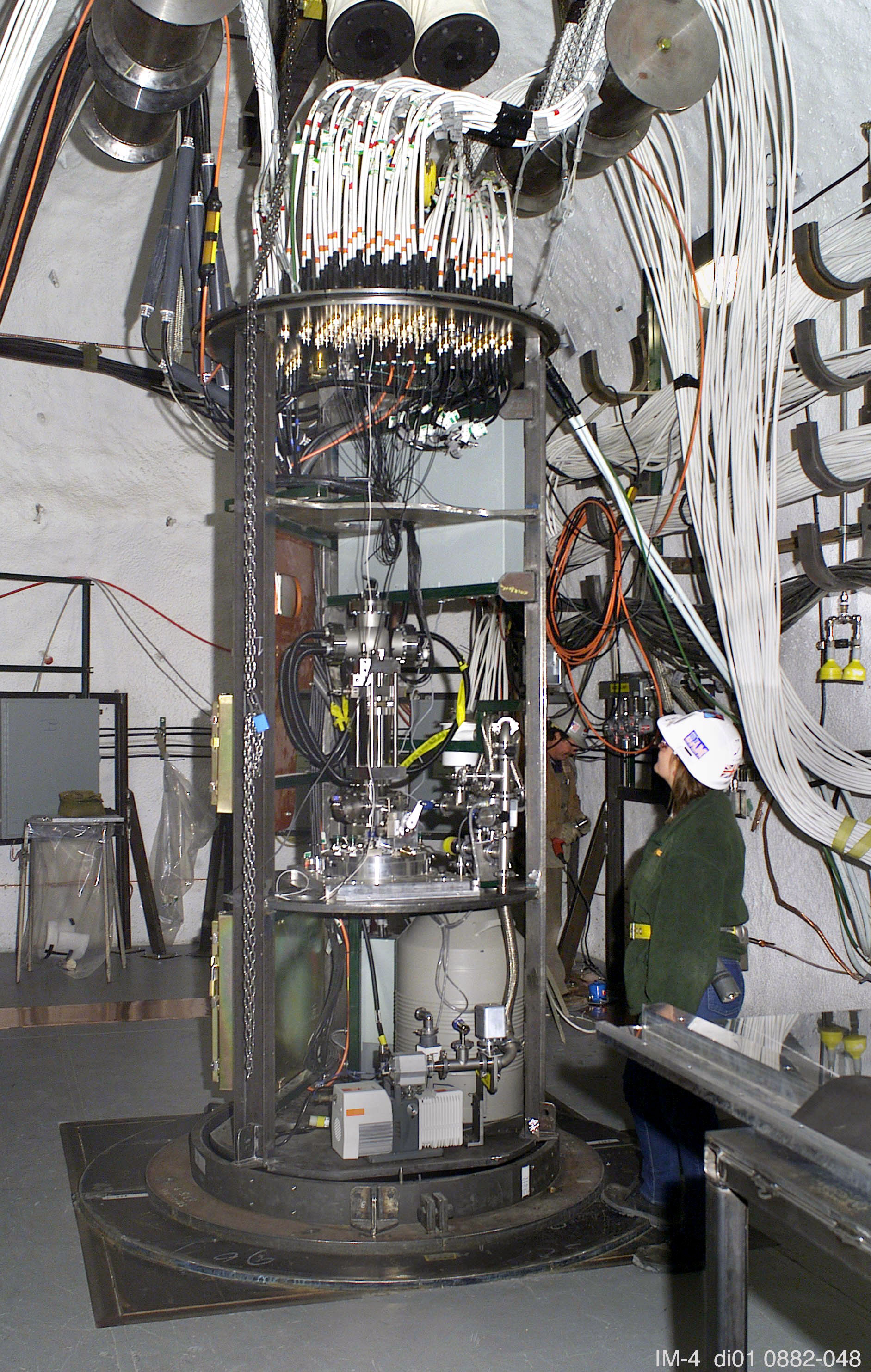 Nevada Test Site. Vito subcritical experiment racklet.